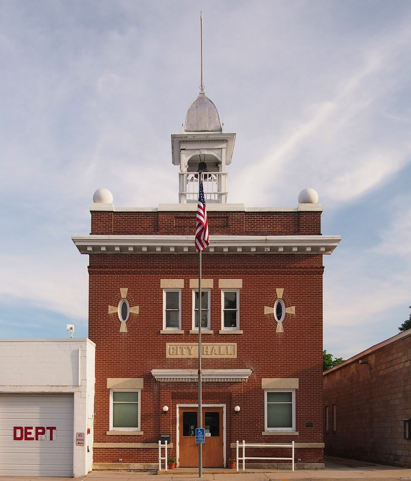 Nerstrand City Hall, 221 Main Street, Nerstrand, Minnesota, United States. Viewed from the north.